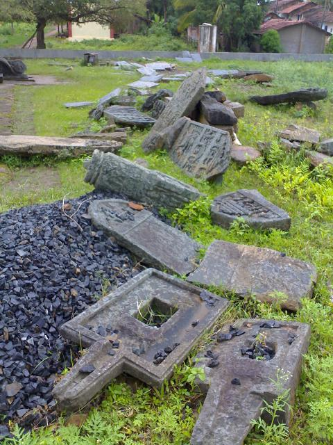 Tamboor Basavanna temple, near Kalghatgi Author and Source : Manjunath Doddamani, Gajendragad, Karnataka (North), India